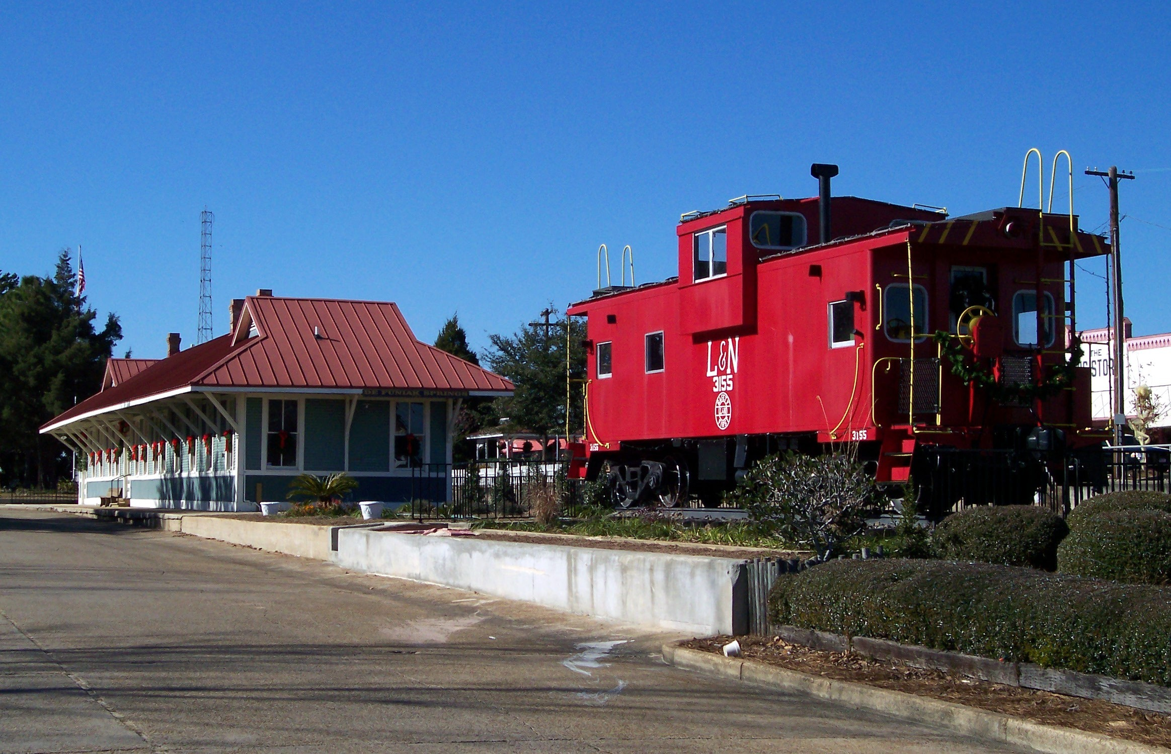 Staugbeachbum created this image. There are no licenses or copyrights.